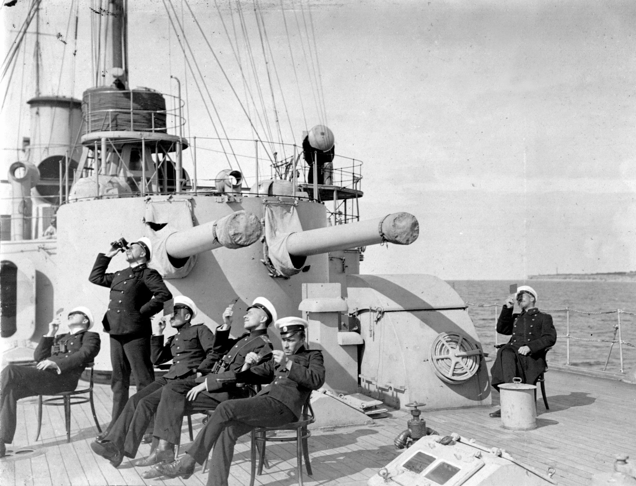 The Imperial Russian first rank cruiser «Oleg» in 1914.